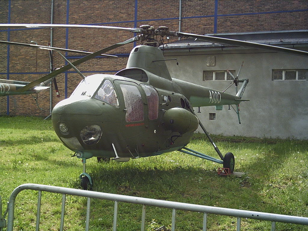 Mil Mi-1M, Kbely museum, Prague, Czech Republic